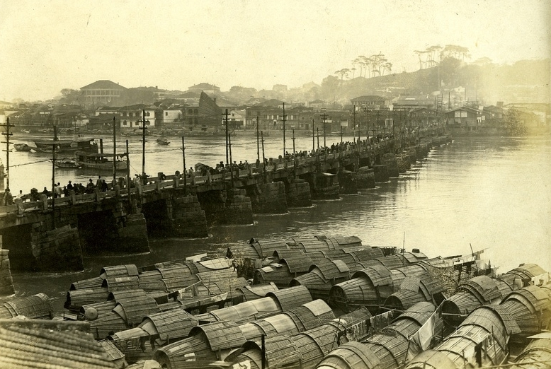 Min River, Bridge of Thousand Ages and Foochow Tanka boats, Foochow, China, 1927